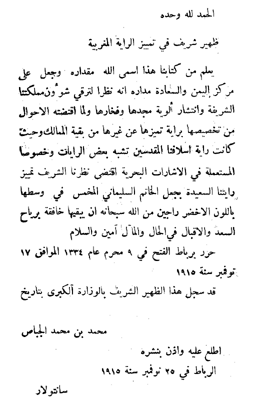 Thank god alone / A Cherifian Dahir in the distinction of the Moroccan flag/ To be known from this book, may god uphold its value and to be around the centre of grace and joy its orbit, that due to the promotion of our cherifian kingdom affairs, the spread of its glory and its pride, the need to assign a flag that distinct it from the rest of the kingdoms as that our sacred ancestors flag use to be very similar to some other flags especially the ones used in the marine signs, our noble vision decided to distinct our joyful flag by making the five pointed seal of Solomon in the middle in green, asking the almighty god to keep it waving with the winds of fortune and ambition for this time and the becoming, Amen and peace./ Released in Rabat in 9 Muharram of the year 1334 [AH] corresponding to 17 November of the year 1915 [CE]/ This Dahir was registered in the greater ministry in [?]/ Mohammed ben Mohammed El Jebbas/ Was revised and permitted to be published/ Rabat in 25 November of the year 1915/ Santoular